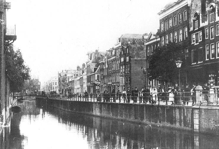 Vijzelgracht (canal in Amsterdam) ca. 1930, since 1933 the canal is a road. Bridge is an old bridge for pedestrians nearby Derde Weteringdwarsstraat; bridge demolished ca 1930